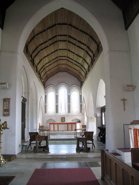 All Saints, Ulcombe, Kent - East end